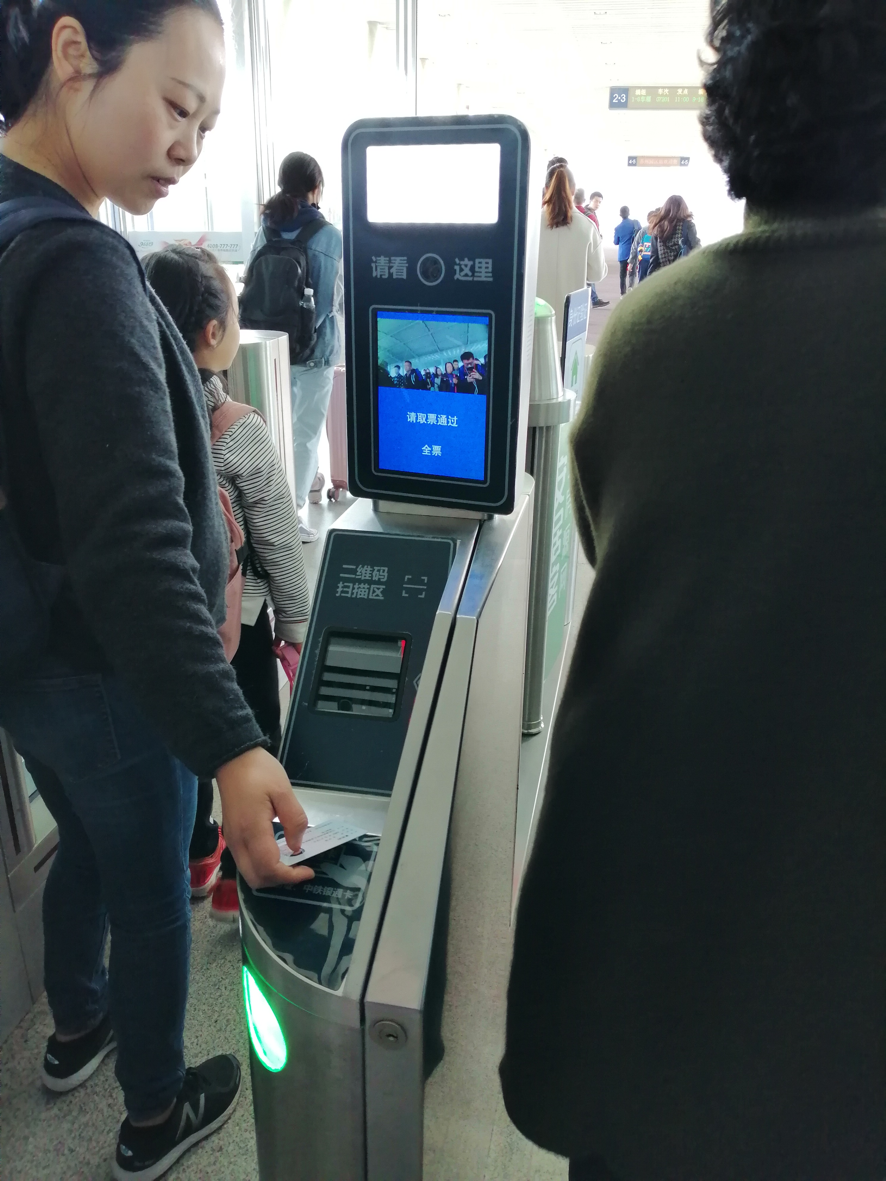 A passenger was swiping the ID card on the new gate in Suzhou Industrial Park Railway Station. The gate also equipped with QR Code scanner. 中文（中国大陆）: 一名乘客正在刷身份证通过更新后的苏州园区站闸机。该闸机亦配有二维码扫描区。